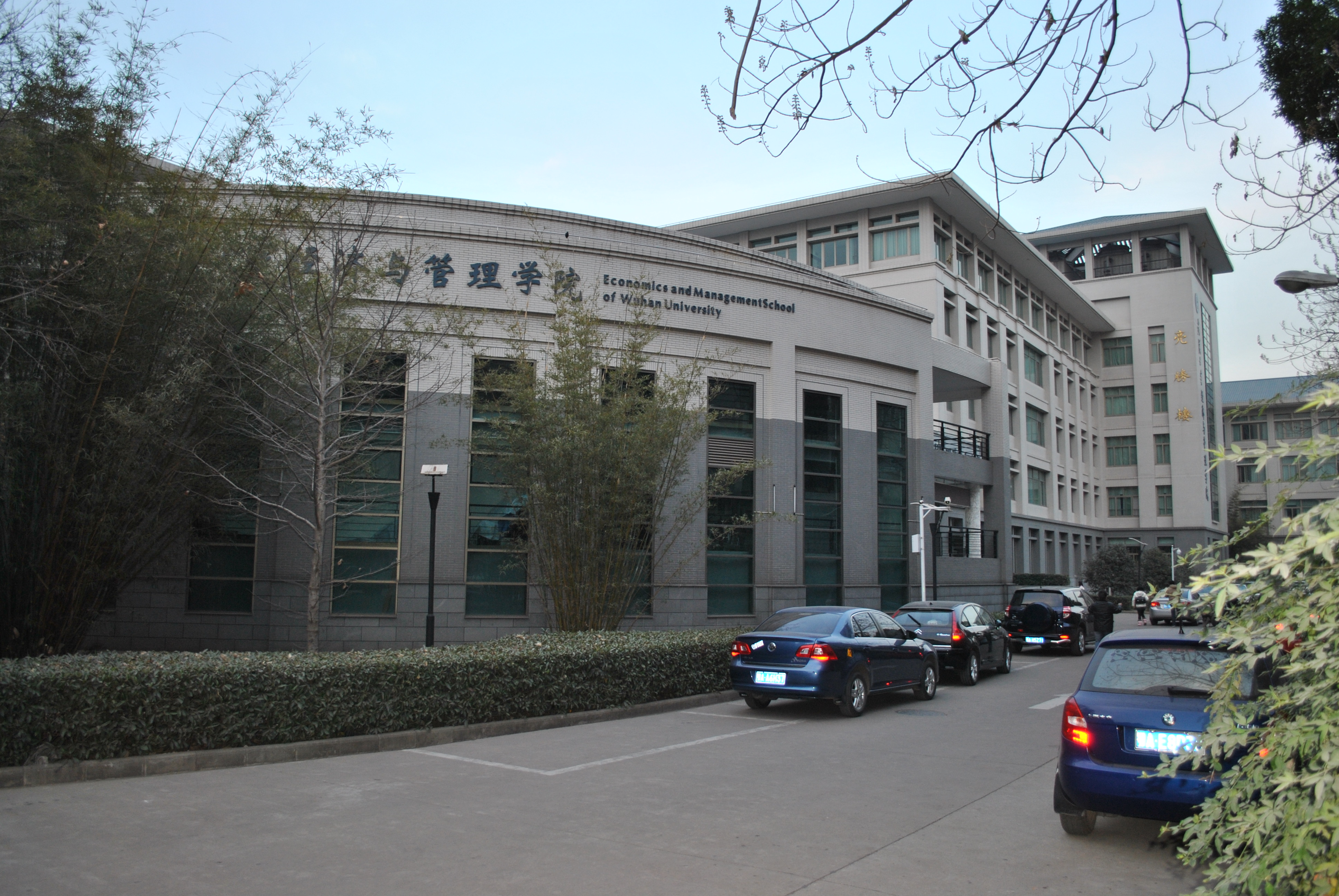 school of business, Wuhan University